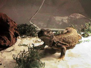 Mali uromastyx, taken by Glenn Kurtzrock